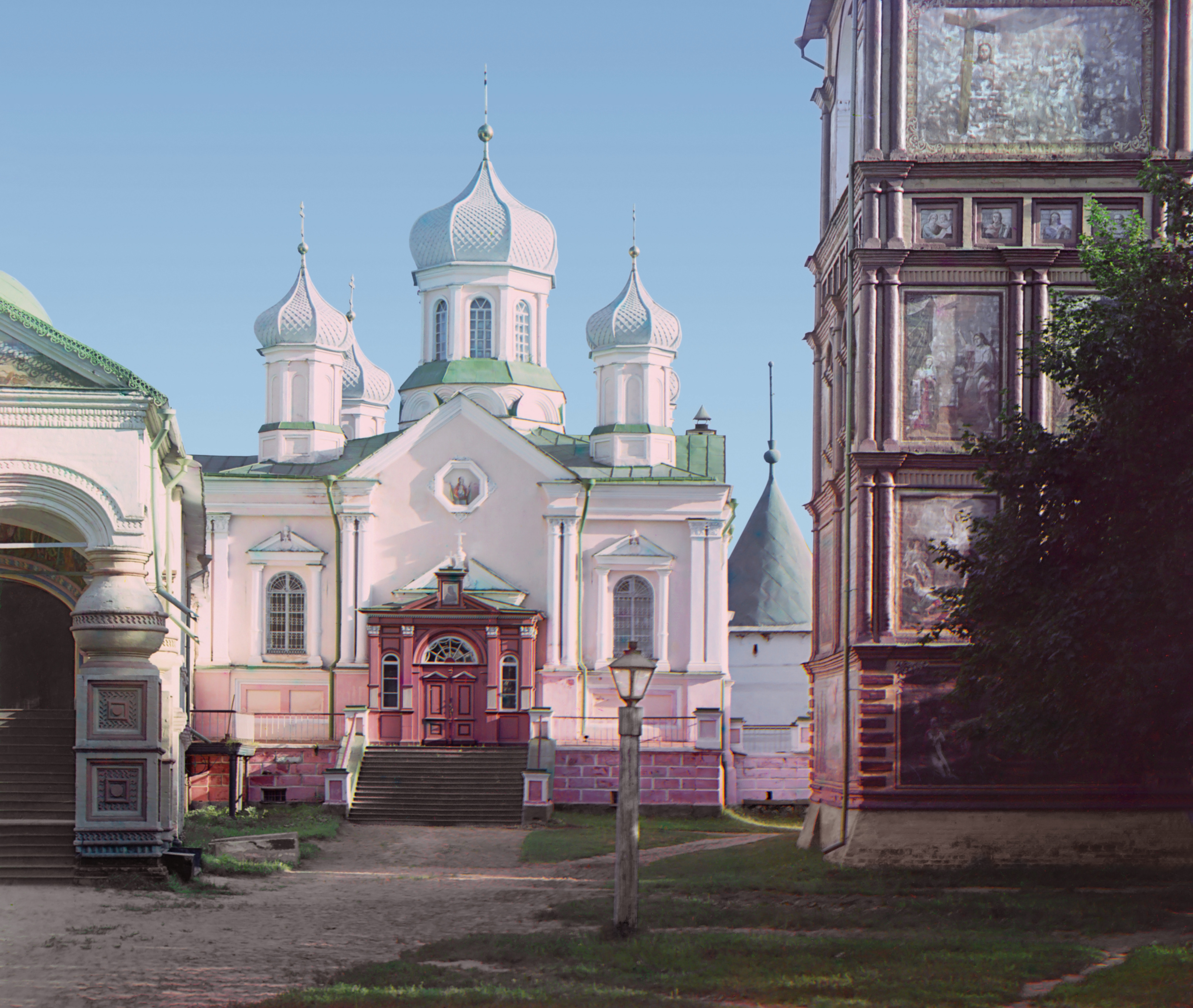 Original Description: Cathedral of the Nativity of the Holy Mother of God in Ipatevskii Monastery (winter). [Kostroma].